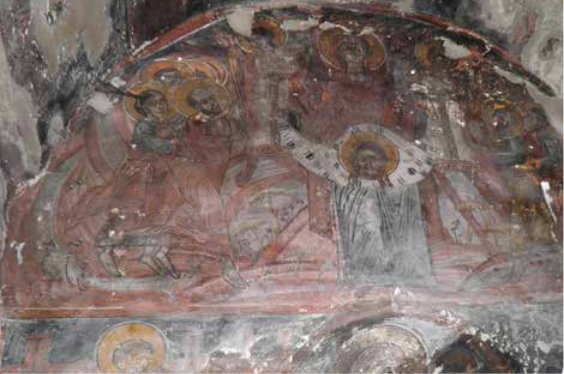 Kërçisht e Sipërmë, Church of the Ascension, the sanctuary I half of the XVI Century